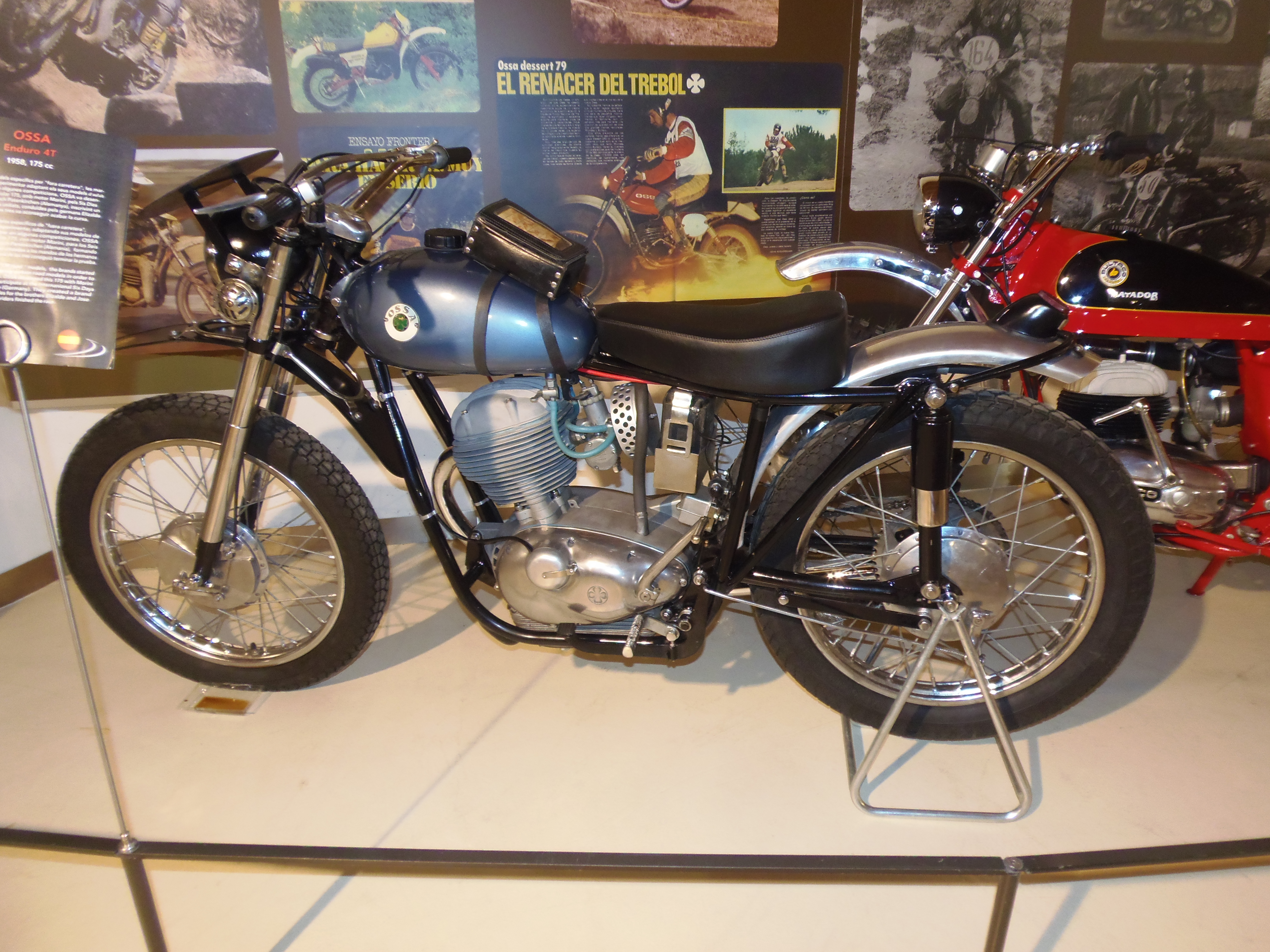 OSSA Enduro 4T 175 (1958), with a Morini engine. OSSA participated in the 1958 ISDT (held in Garmisch-Partenkirchen, Germany) with a factory team formed by the Elizalde brothers and Josep Romeu, all them with one of these motorcycles. None of the three riders finished the event.